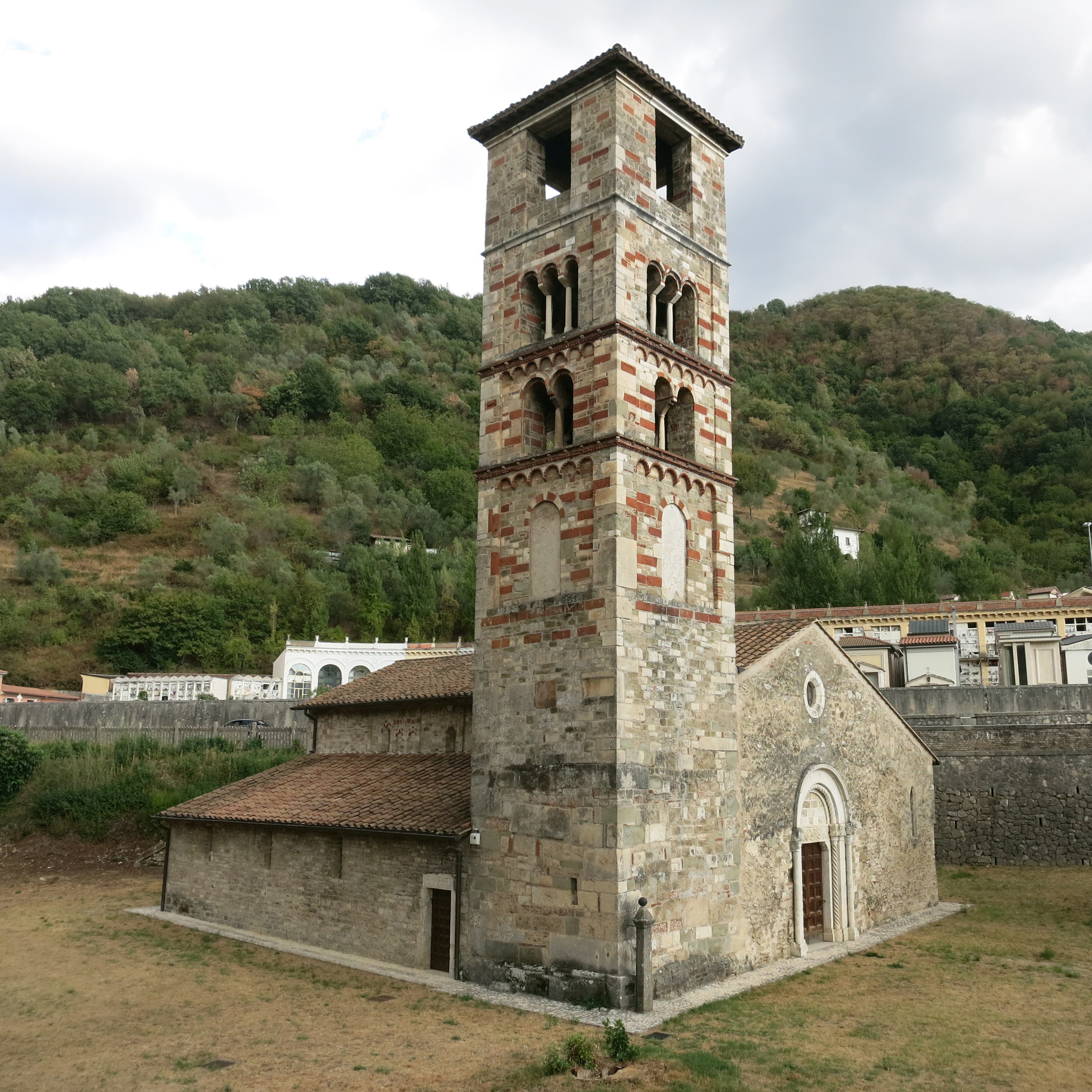 Saint Mary "Extra Moenia" church - Antrodoco (province of Rieti, central Italy)